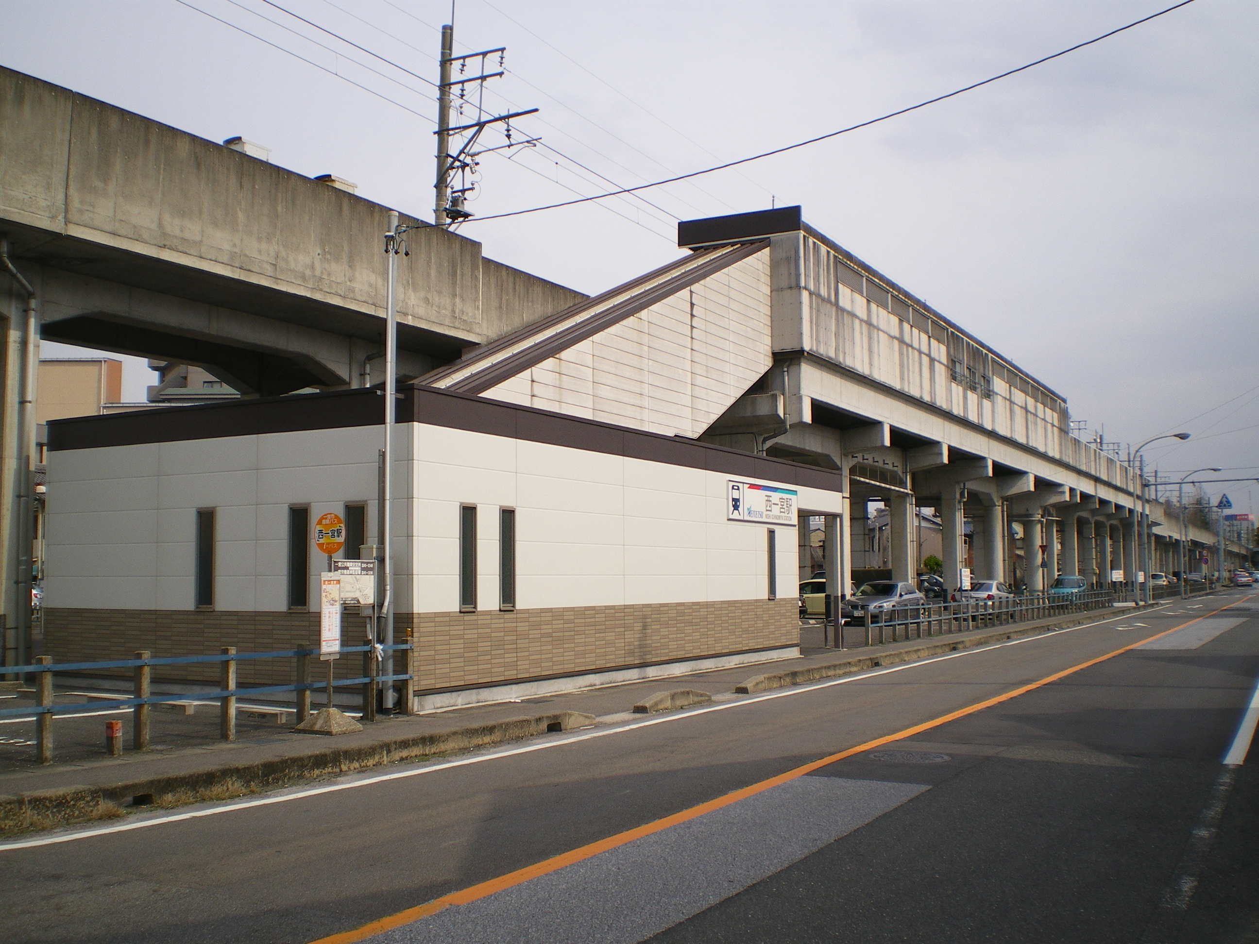 Nagoya Railroad Bisai Line Nishi-Ichinomiya Station Building